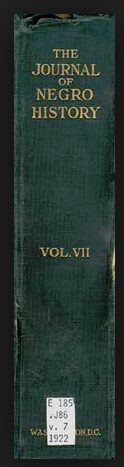 bound volume 7 (1922) of Journal of Negro History Other information none